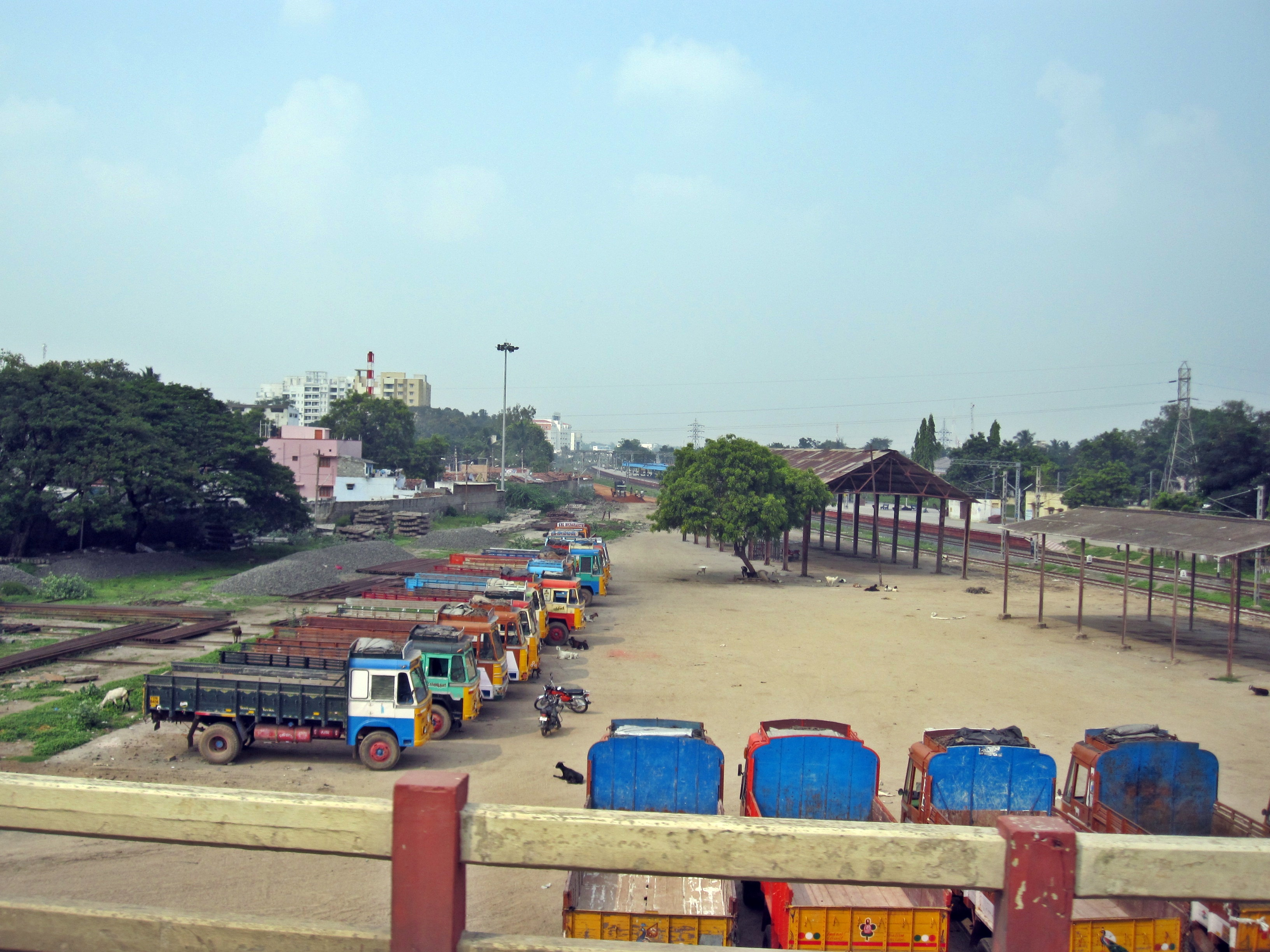 North coimbatore railway yard, As seen from the north coimbatore flyover